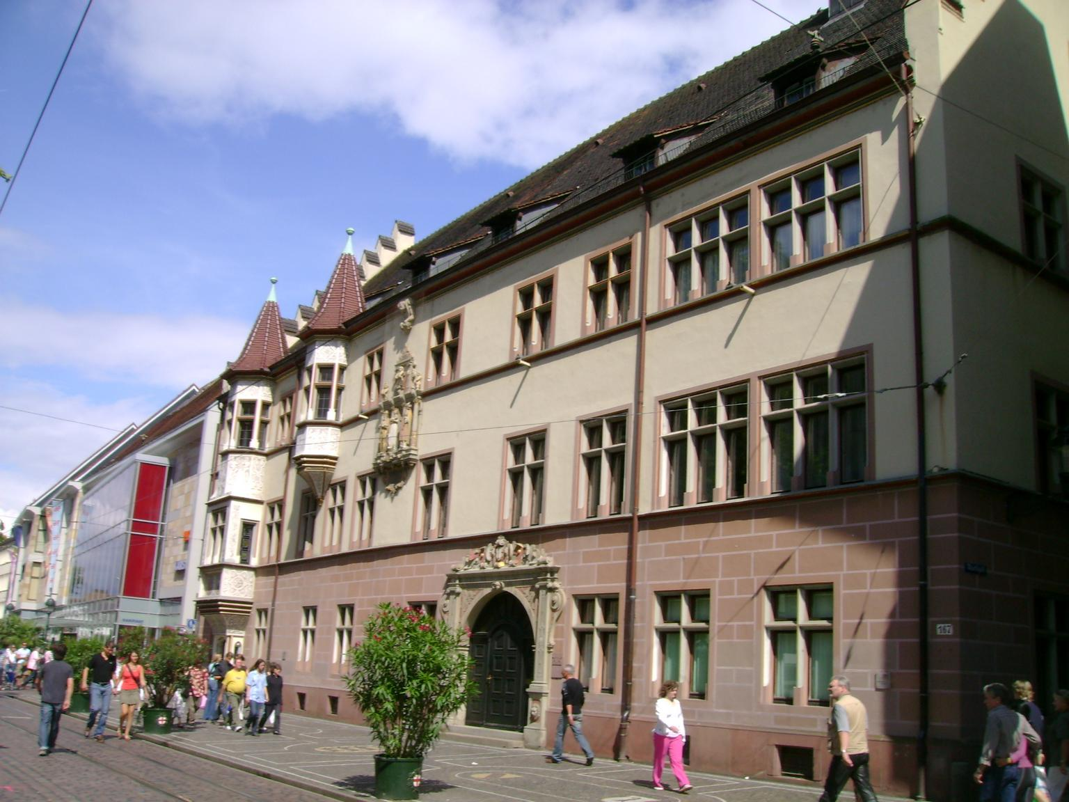 Freiburg, Baden-Württemberg, Germany